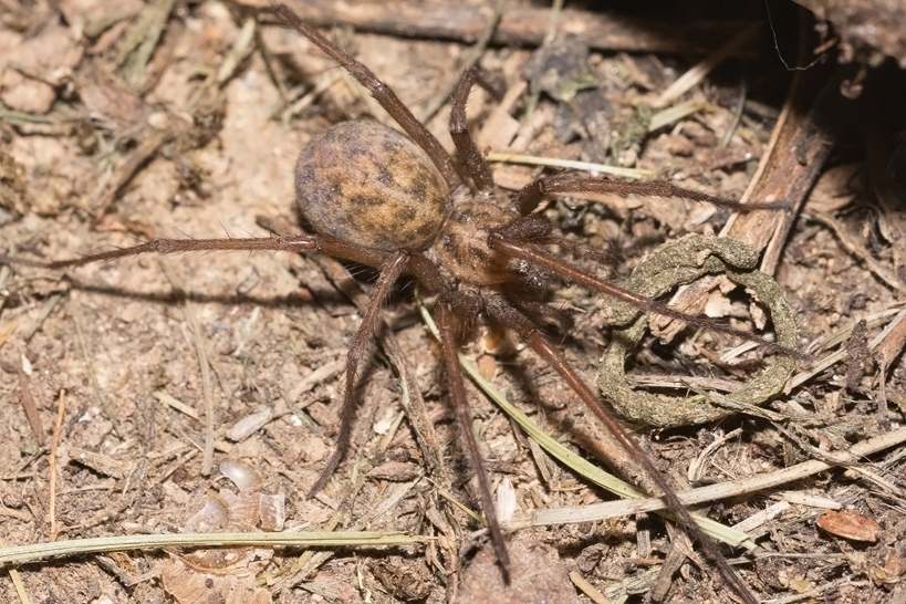 Eratigena agrestis ♀ (Walckenaer, 1802) : Vitry-en-Artois (62490) : 50°19’37.97’’ N, 2°58’49.50’’ E